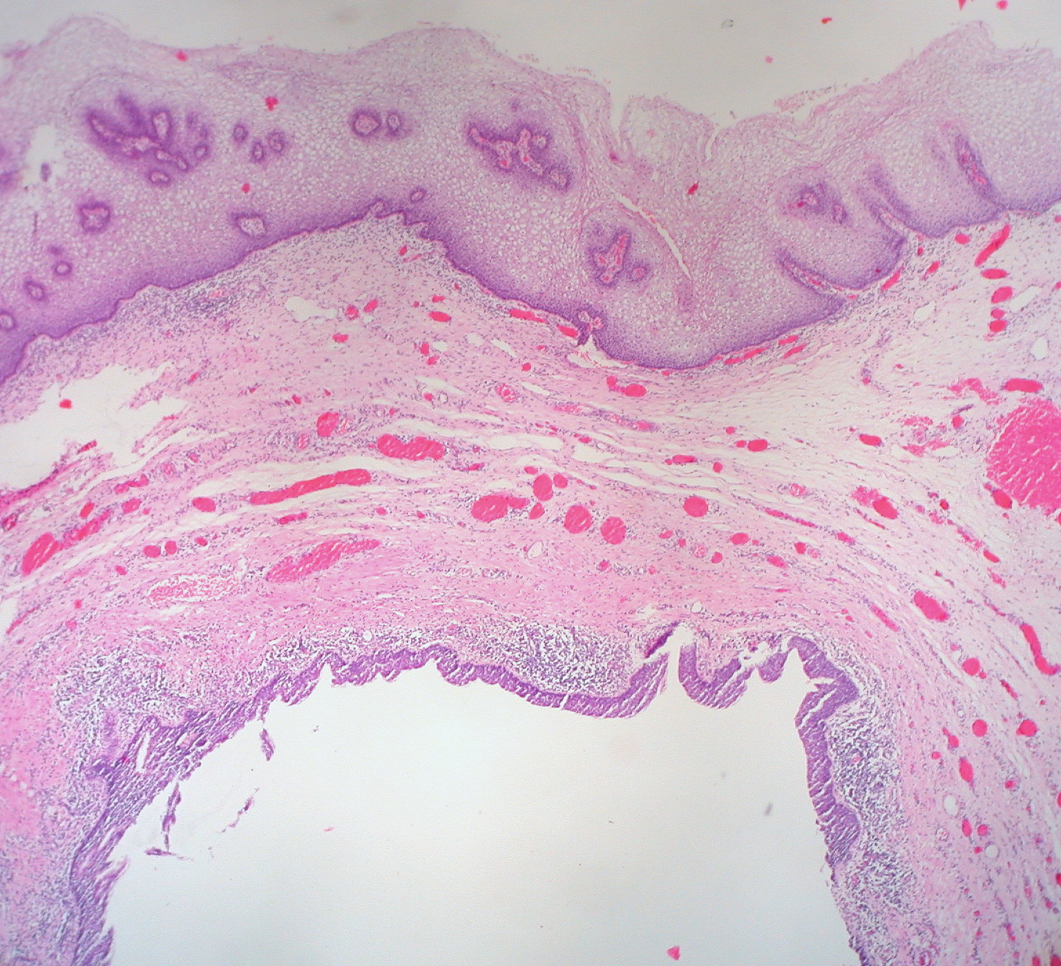 Showing relationship of cyst wall (below) to overlying native vaginal epithelium (top) Pathological and histological images courtesy of Ed Uthman at flickr.